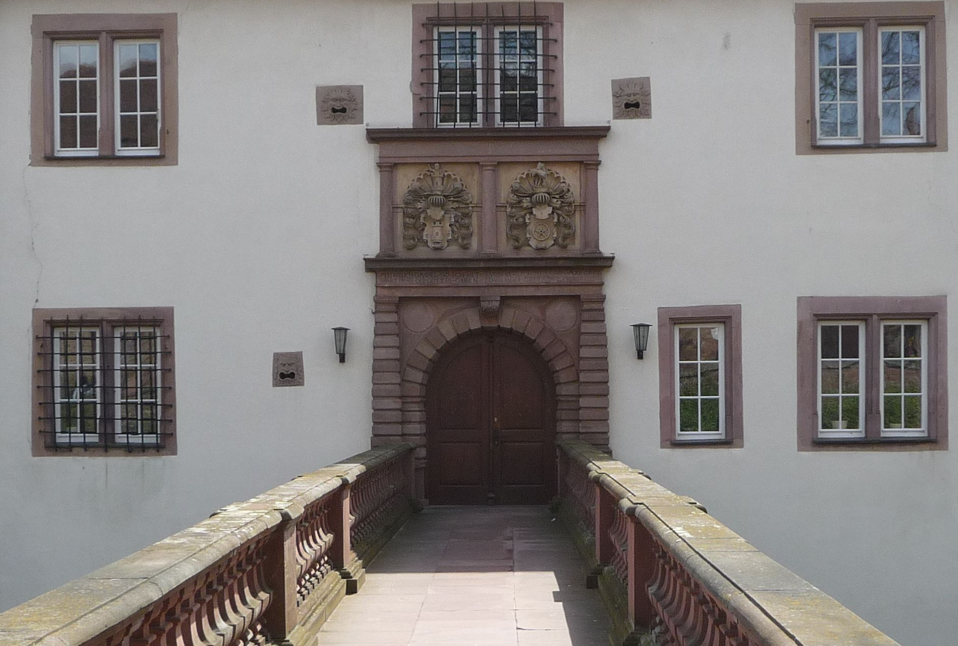 Hardheimer Schloss